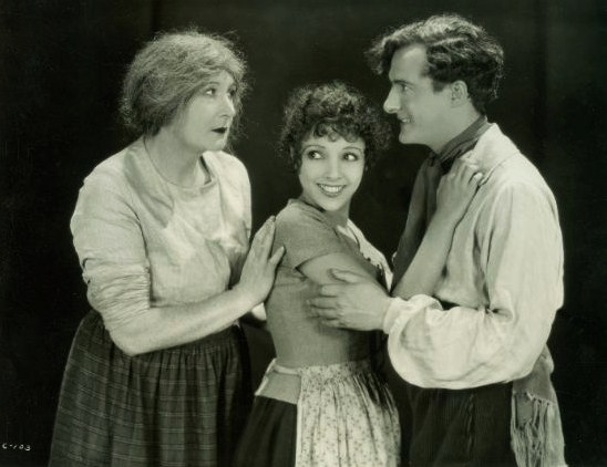 Left to right: Rose Dione, Nina Quartero, and Gaston Glass in The Red Mark (1928) - publicity still (cropped).